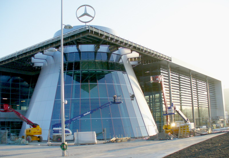 Stuttgart Bad Cannstatt new Mercedes-Benz Welt Januar 2006 self made photo by user:Enslin at 8 JAN 2006 in Stuttgart-Bad Cannstatt